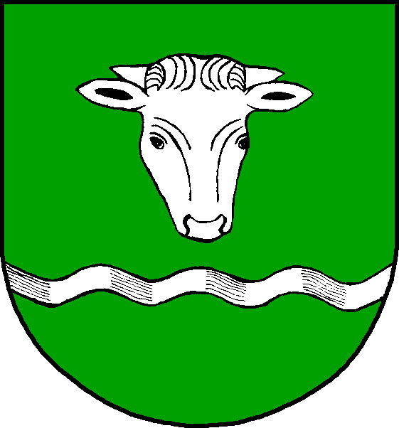 Coat of arms of the municipality Bullenkuhlen in Schleswig-Holstein, Germany.